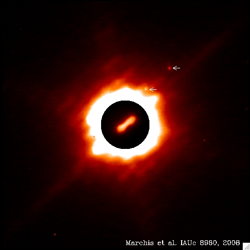 Composite image of (216) Kleopatra observed with the 10m-Keck II telescope and its Adaptive Optics system on September 19 2008 UT. The central dark circle shows the dog-bone shape of the primary. The arrows indicate the position of the newly discovered satellites with temporary names S/2008 (216) 1 and S/2008 (216) 2 (Credit: F. Marchis, et al, SETI Institute, UC Berkeley).